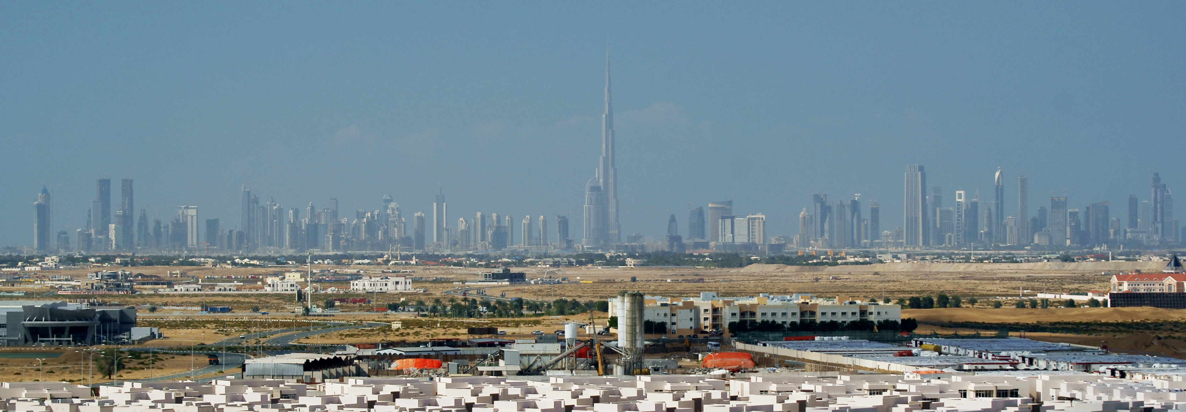 Burj Khalifa on its official opening day Jan 4th, 2010. The image was taken approx. 15 kilometers east of Burj Khalifa and includes several other 300m+ towers